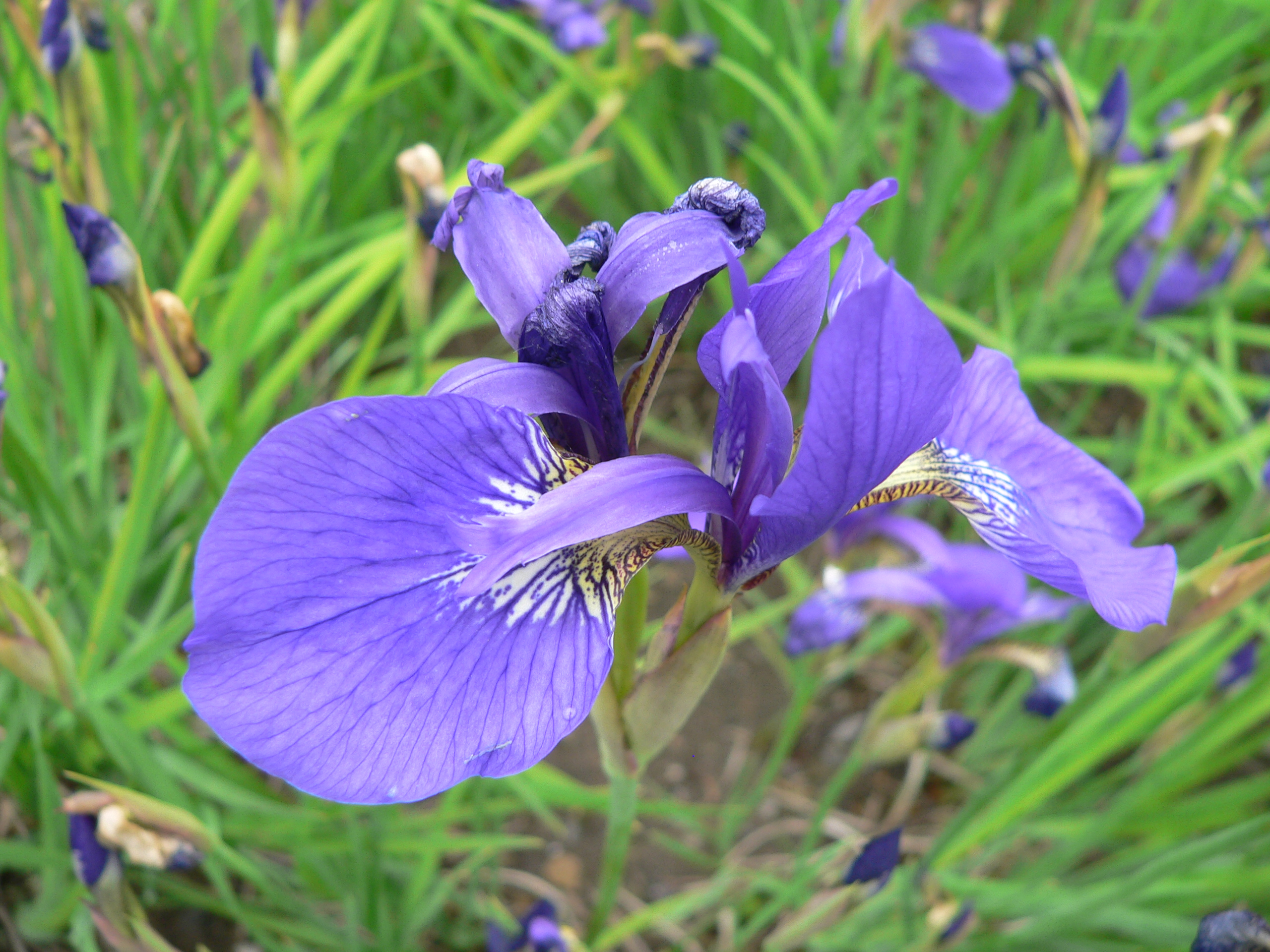 Iris sibirica